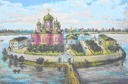 Vvedenski (Presentation of the Blessed Virgin Mary) monastery, Pokrov, Russia